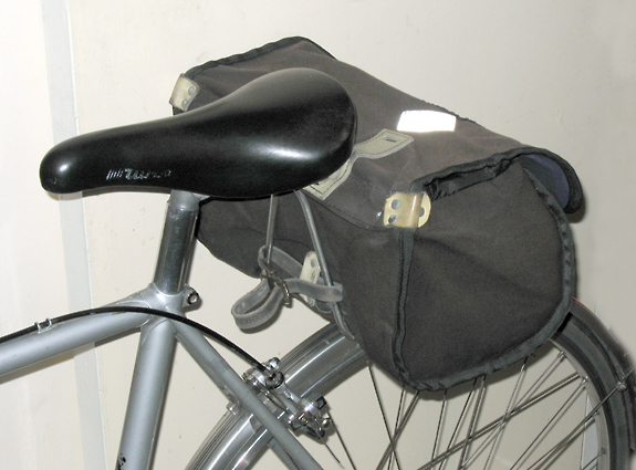 Bicycle saddlebag, medium size of the larger type, attached to back of saddle, and supported underneath by steel rod frame which is attached to saddle rails